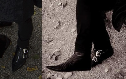 Gothic winkle pickers with coffin shaped buckles at a photoshooting with scene photographer Alice K. in October 2009. Arranged by myself, original pictures used with kind permission.